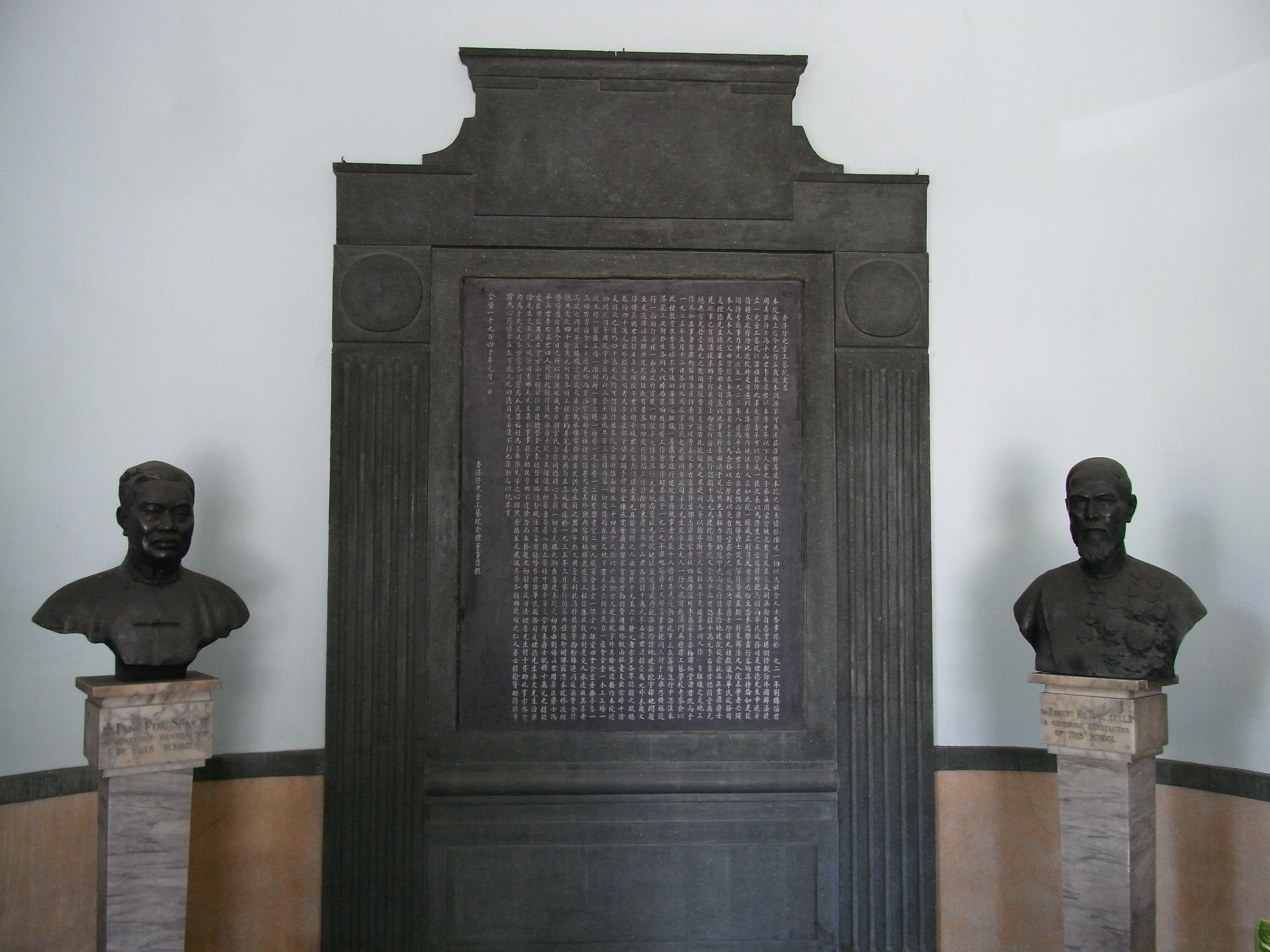 香港仔工業學校, Aberdeen Technical School, 1 Wong Chuk Hang Road, Aberdeen, Hong Kong